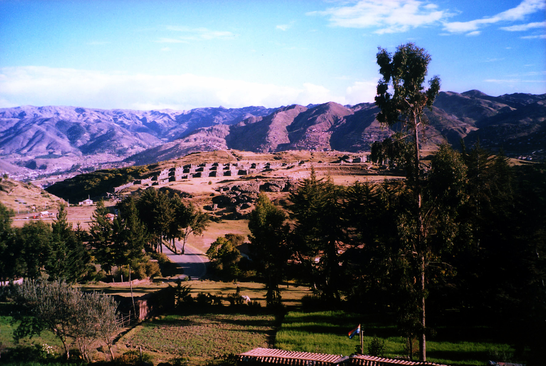 Sacsahuamán (Sacsayhuamán), Cusco, Peru. The photo was taken in June 2002 by Håkan Svensson (Xauxa).